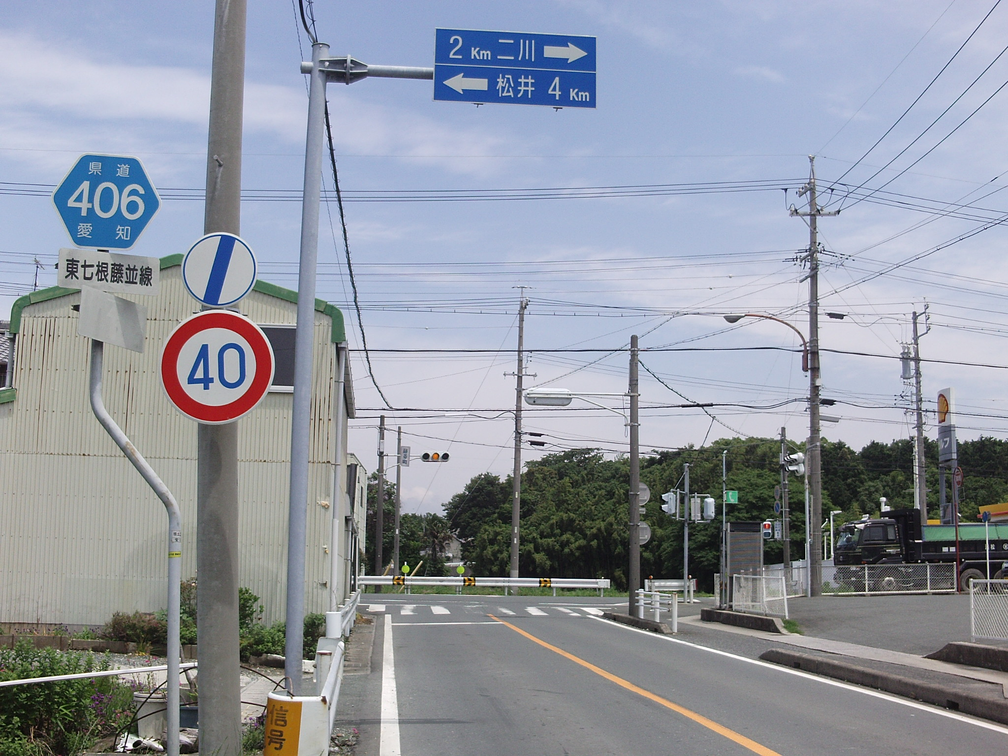 Aichi prefectural road No.406 in Fujinamicho, Toyohashi, Aichi.